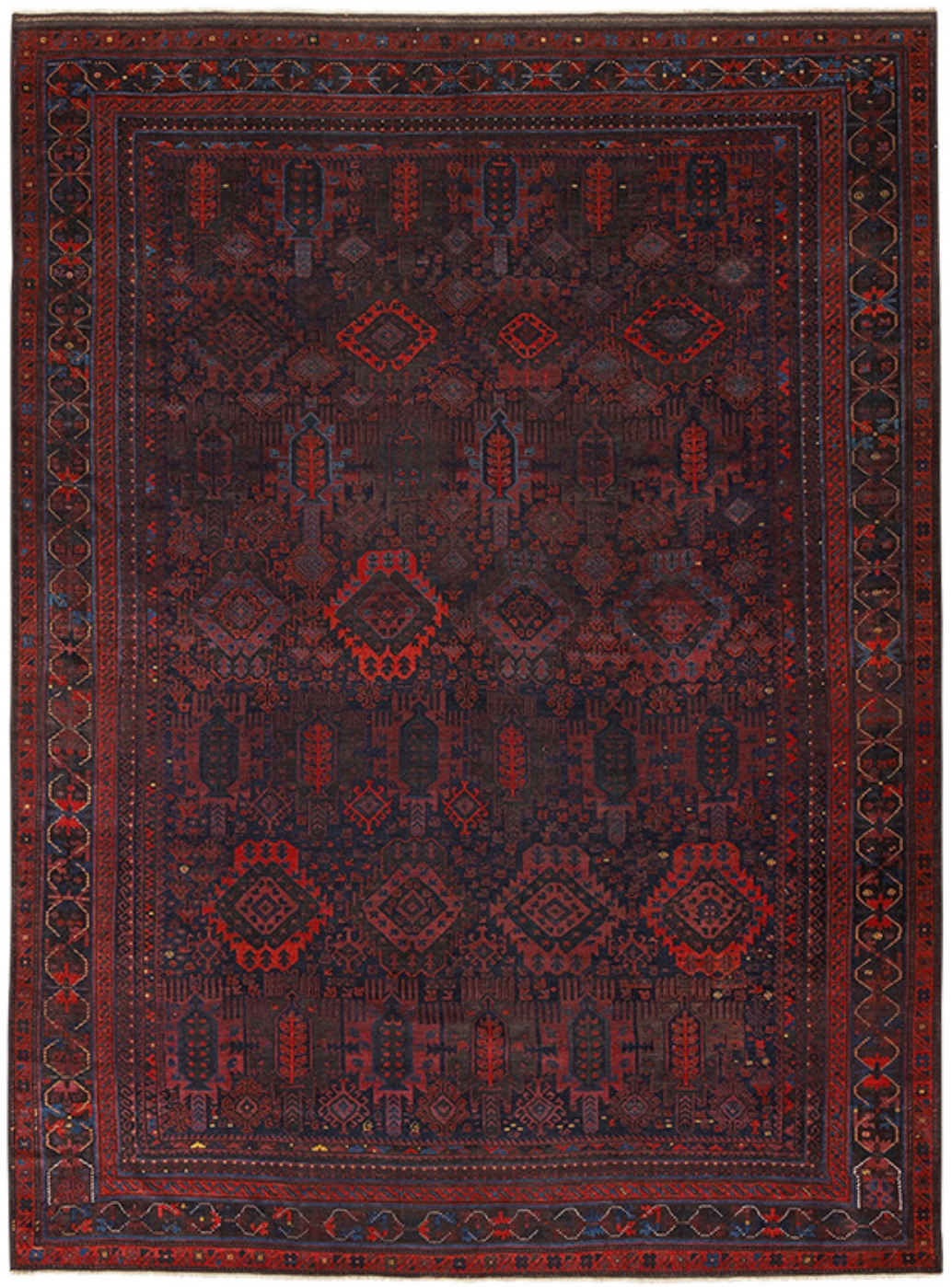 Size 350 X 280 . Origin Baluch Nomads, Northeast Persia . Style All Over Cypress & Gül . Materials Wool . Age Second Half 19th Century . Large (especially wide) Baluch rugs are exceedingly rare. This is a remarkable piece in very well preserved condition. Alternating rows depict cypress trees and Turkmen Gül motifs in offset coloration. This most probably was a commission for a tribal Khan or chieftain for ceremonial use.